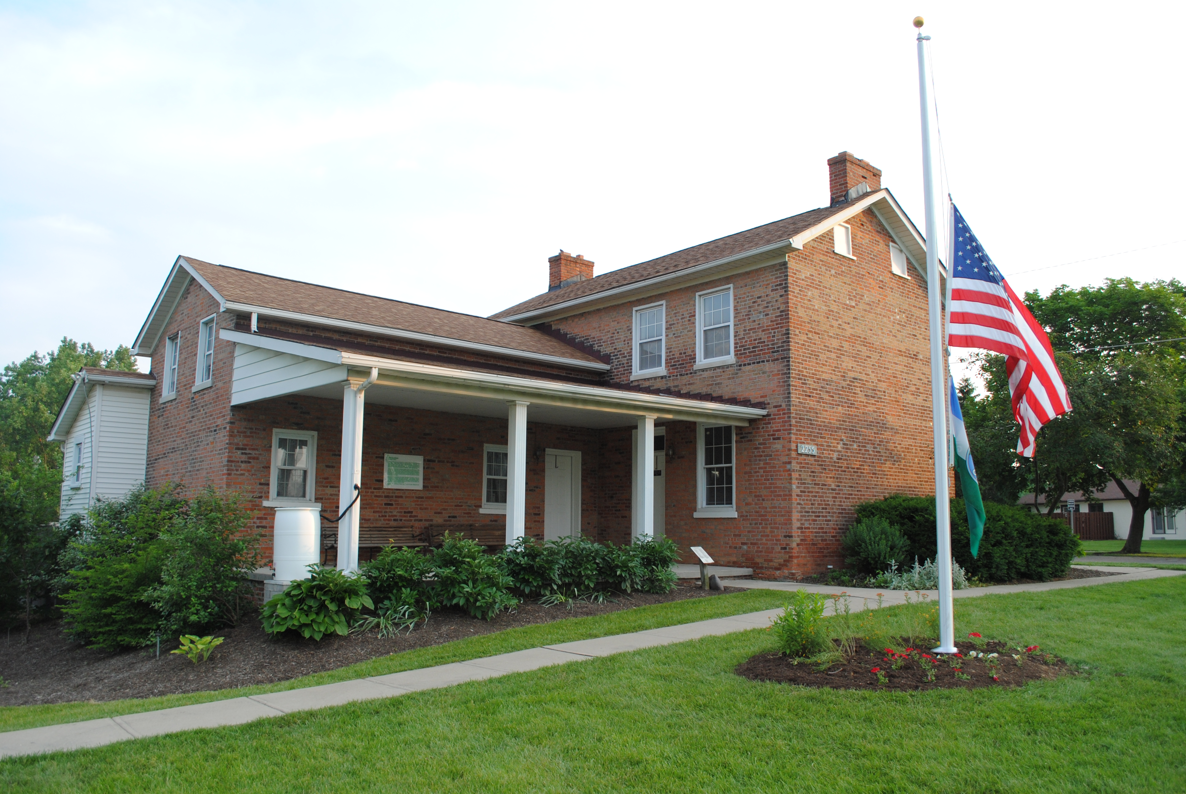 The Gantz Homestead & Garden